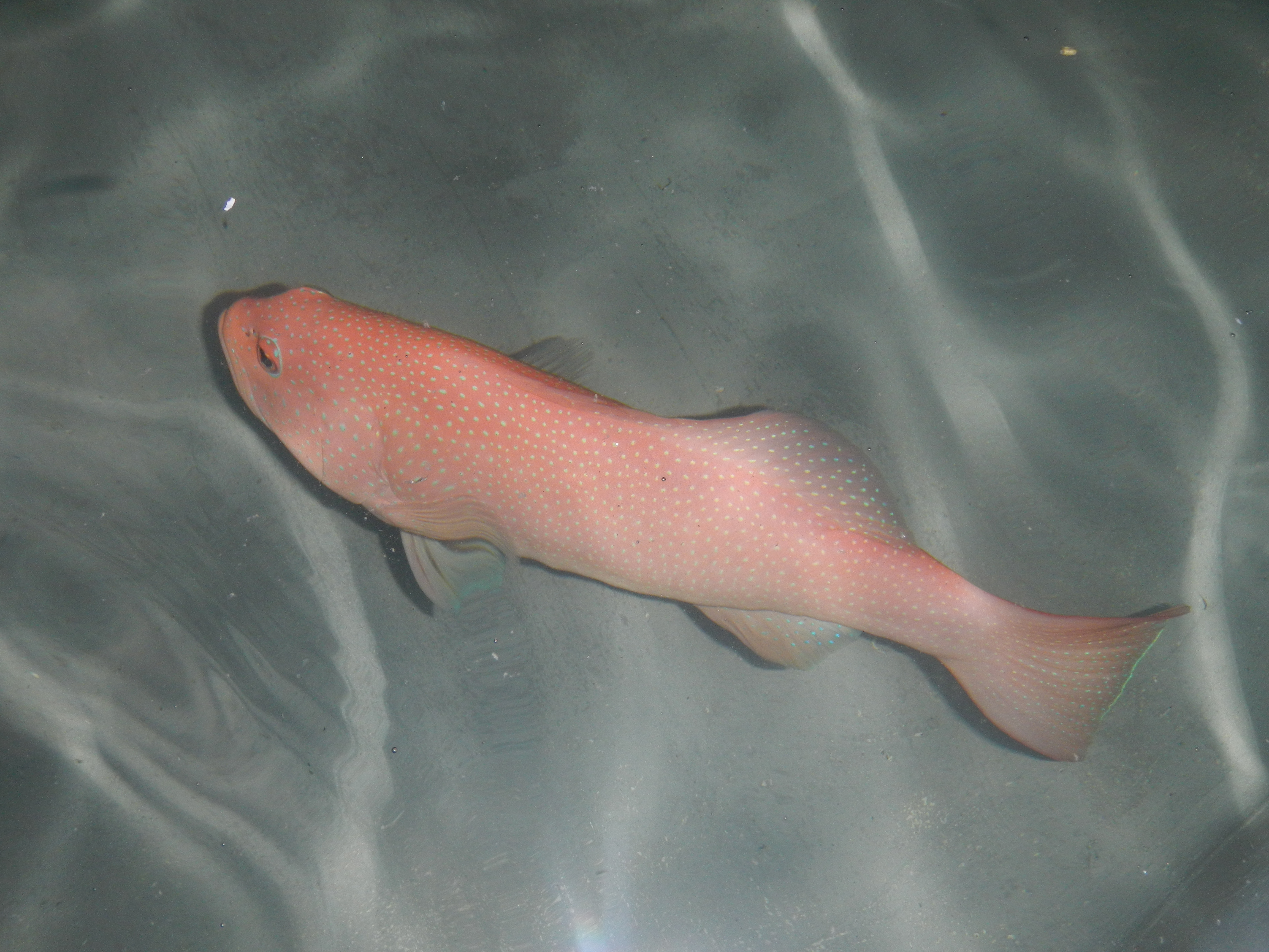 Multi-Species Fish and Invertebrate Breeding and Hatchery, (Oceanographic Marine Laboratory in Alaminos) Lucap, Alaminos, Pangasinan[1] Department of Agriculture, Bureau of Fisheries and Aquatic Resources, Regional Mariculture Technodemo Center (RMaTDeC) - April 20, 2011